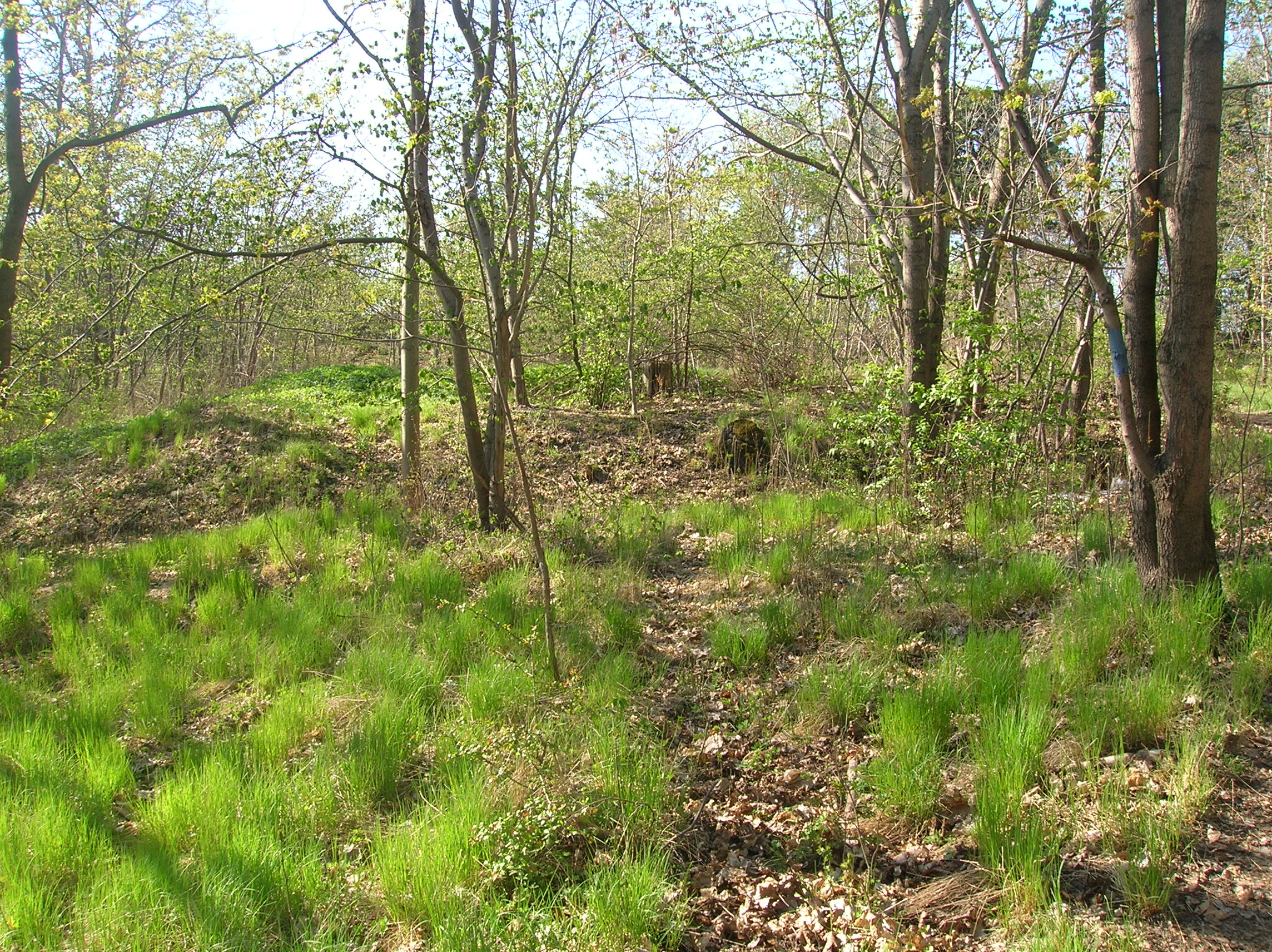 Gravefield RAÄ17 with 13 graves, probably from the nordic iron age. Located next to Årsta gård, Stockholm